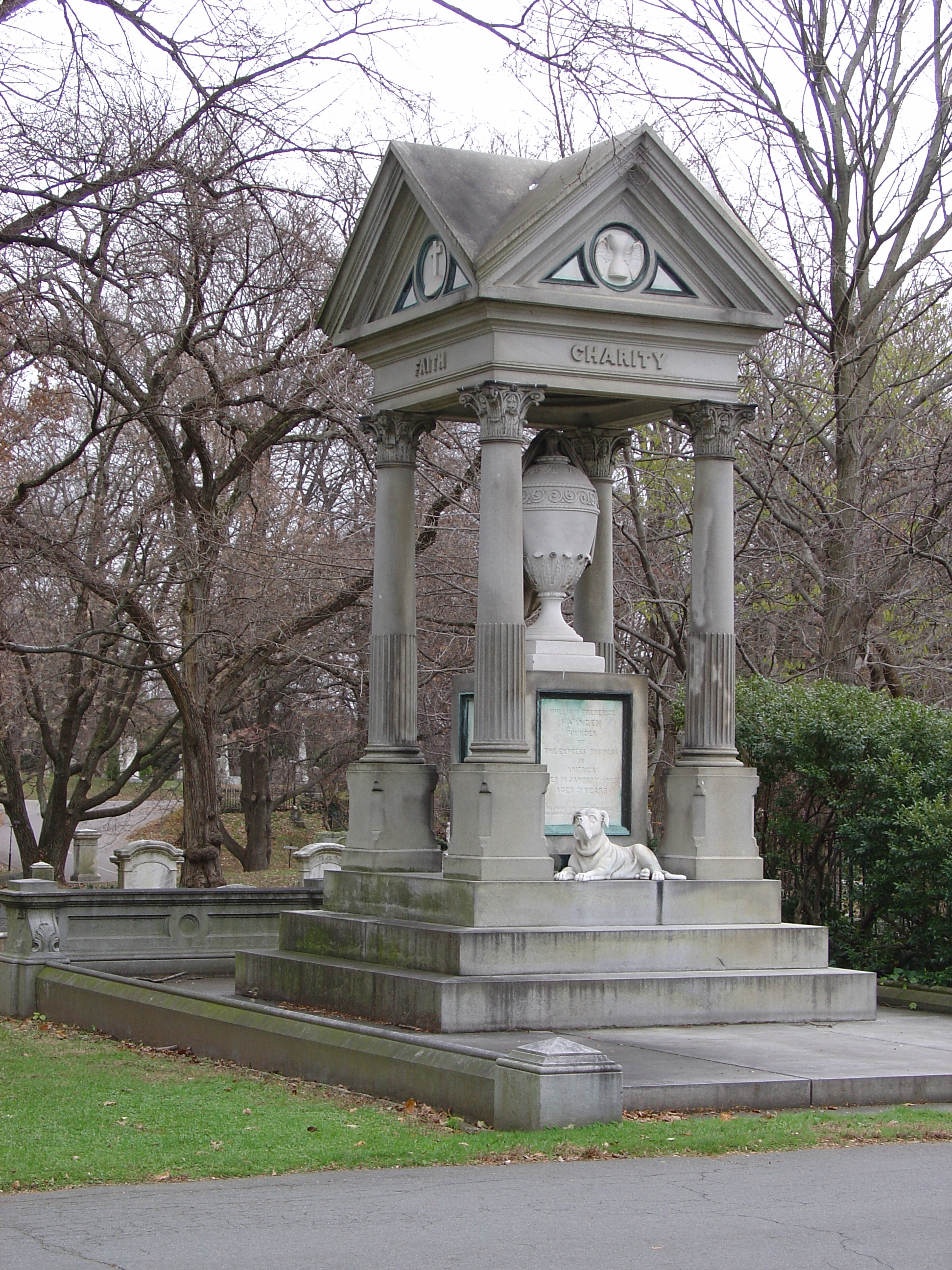 Grave of William Frederick Harnden, Mount Auburn Cemetery, Cambridge, Massachusetts